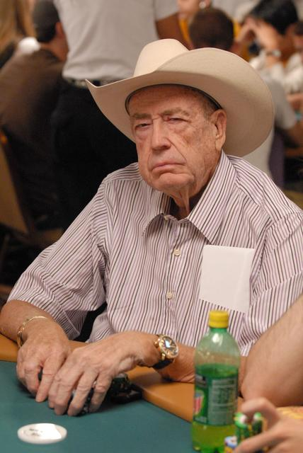 Doyle Brunson in 2007 World Series of Poker - Rio Las Vegas.